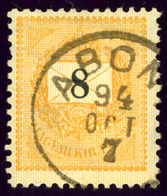 Kingdom of Hungary 8 kr issue 1888 stamp, cancelled at ABONY (central Hungary) in 1894.